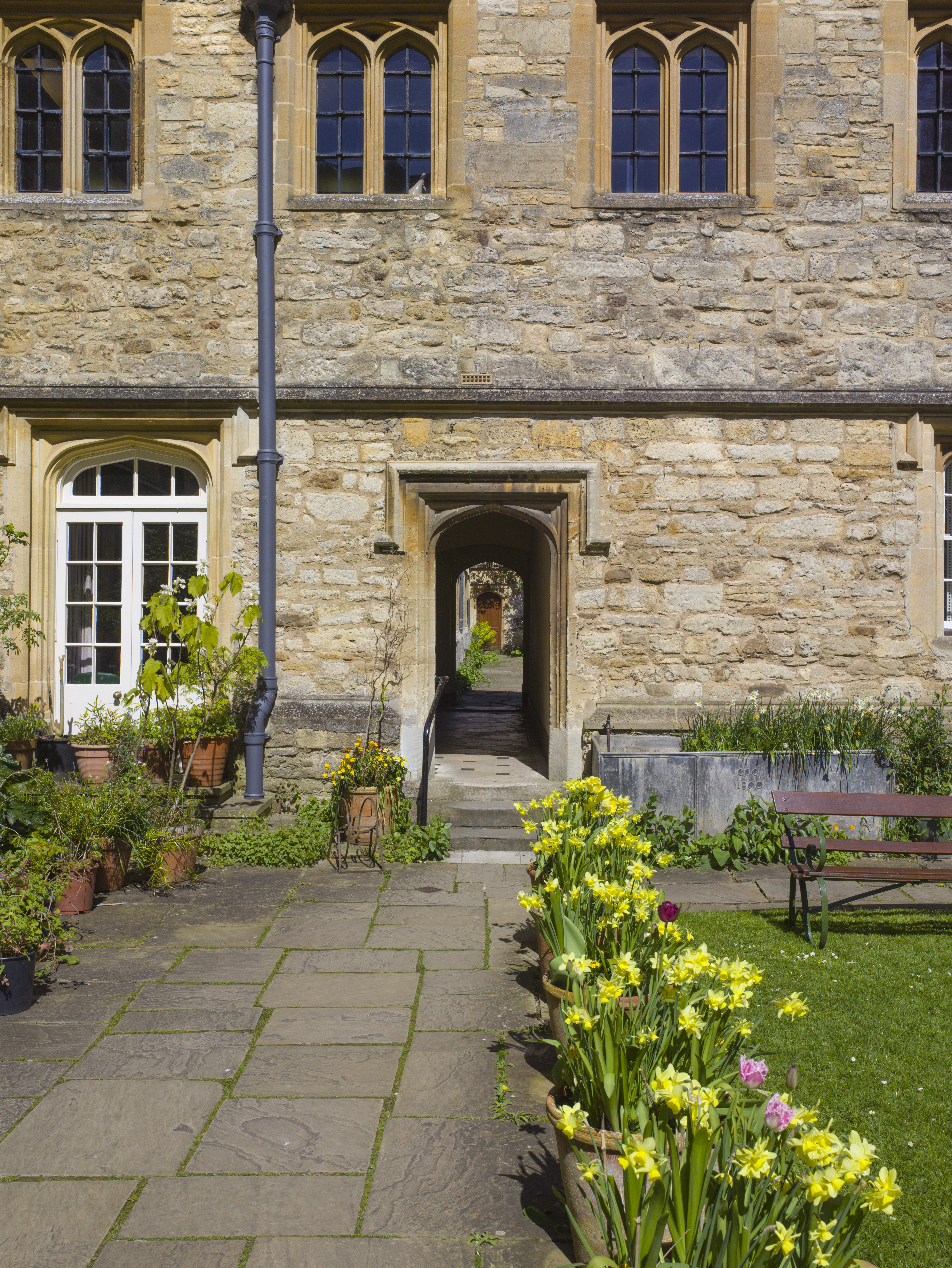 Corpus Christi College (Oxford University) founded in 1517. View from Small Garden towards Front Quad